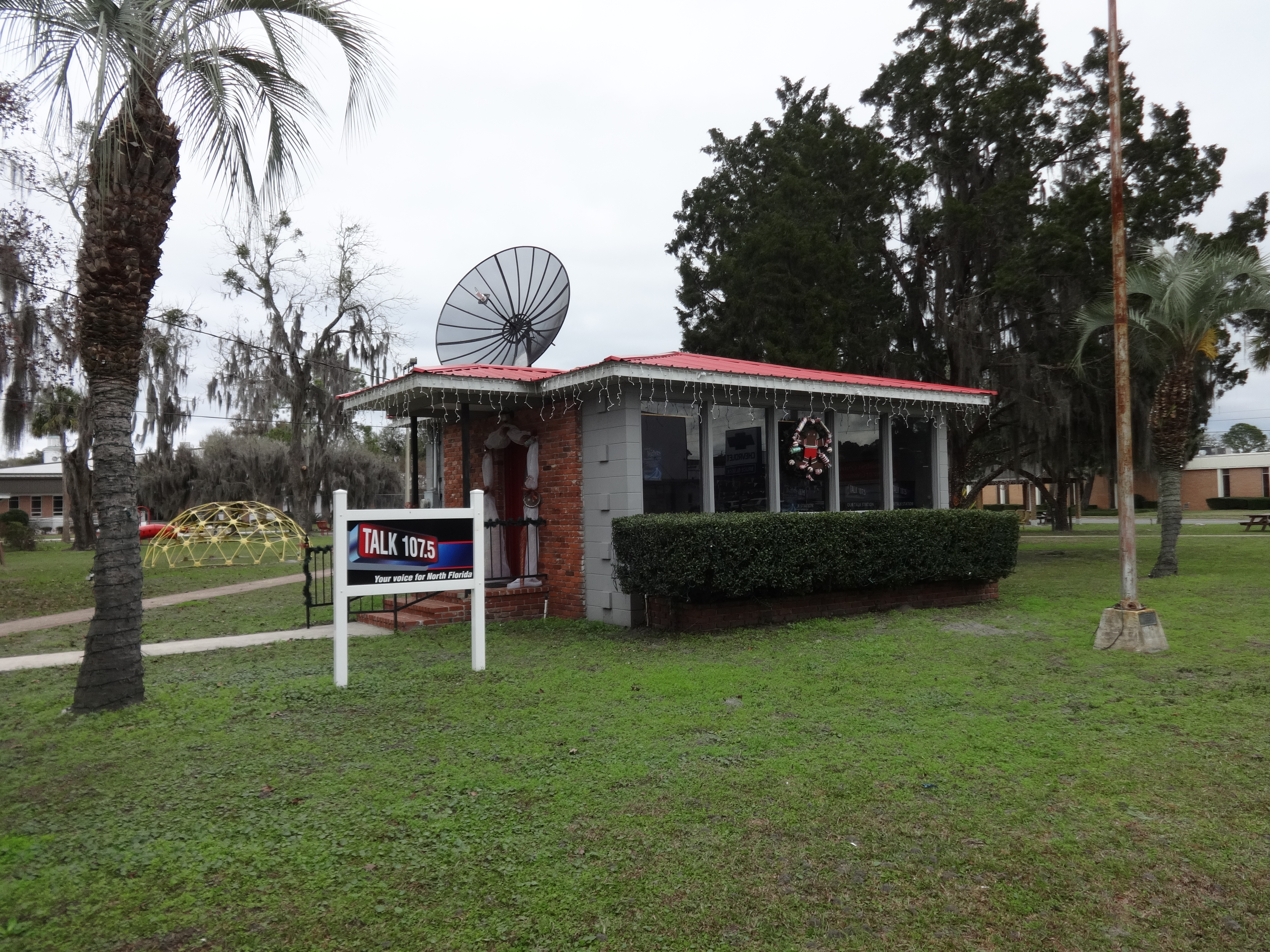 Talk 107.5, Hamilton County, Florida